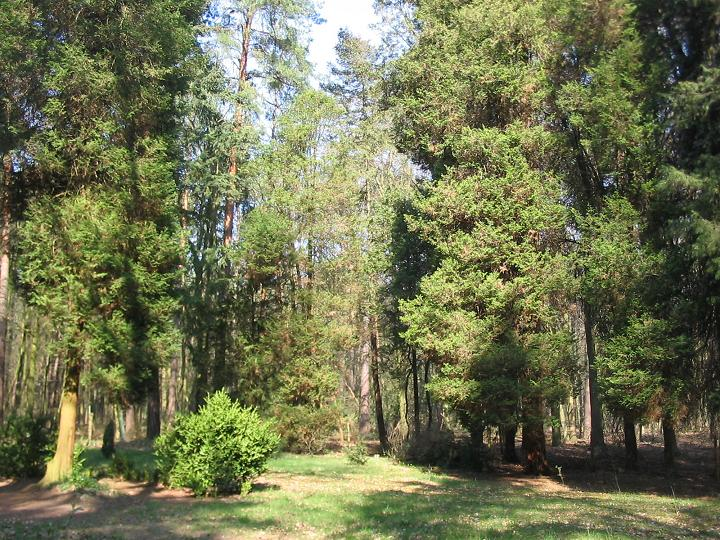 „Dauerwaldrevier“ (German for: Permanent-forest-area) Bärenthoren in the nature park Fläming, nature trail. The special forest was founded in 1884 by the forester Friedrich von Kalitsch. The village Bärenthoren is part of the municipality Polenzko and belongs to the district Anhalt-Bitterfeld, state Saxony-Anhalt, Germany.